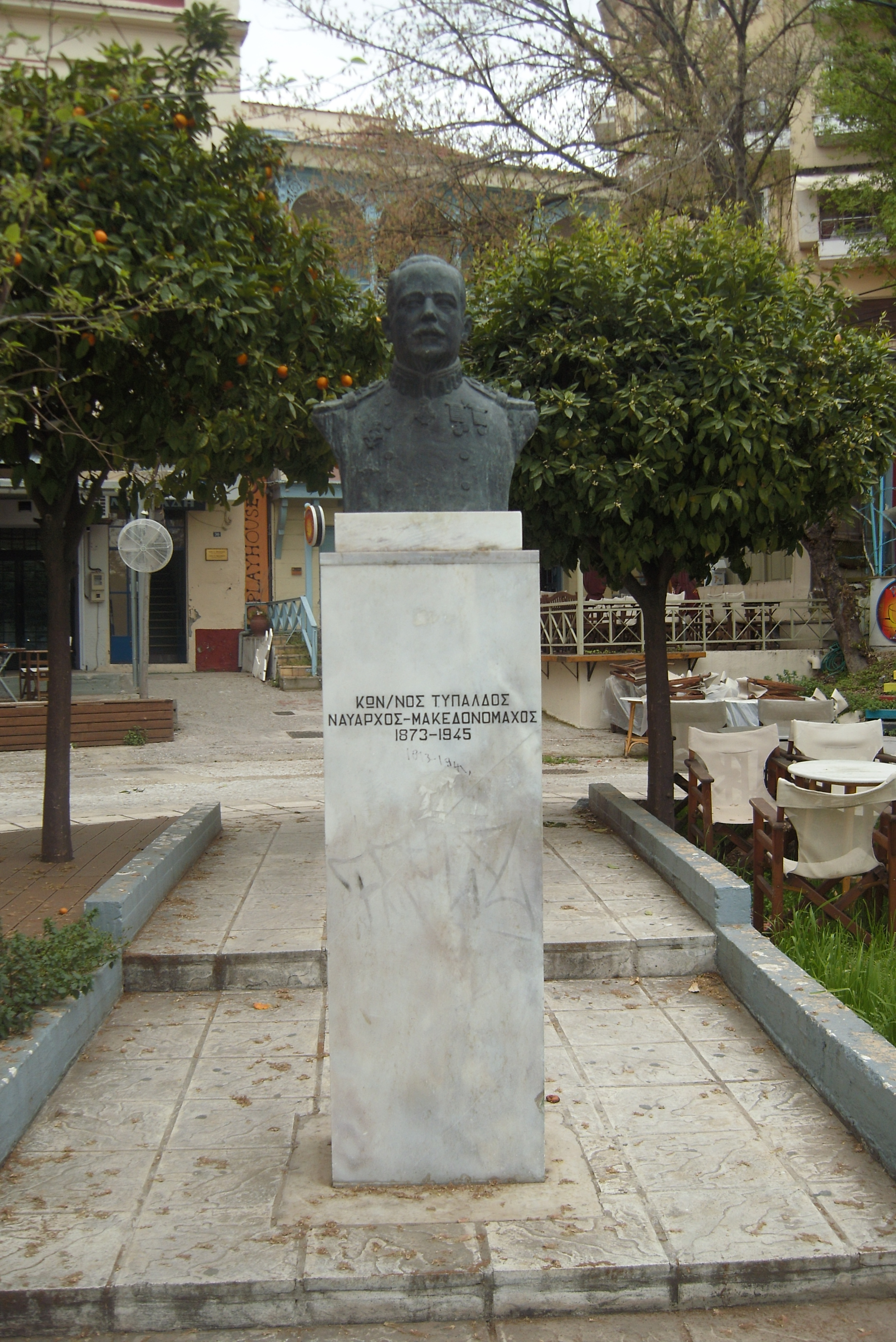 Bust of Konstantinos Tipaldos in Kavala, Greece.